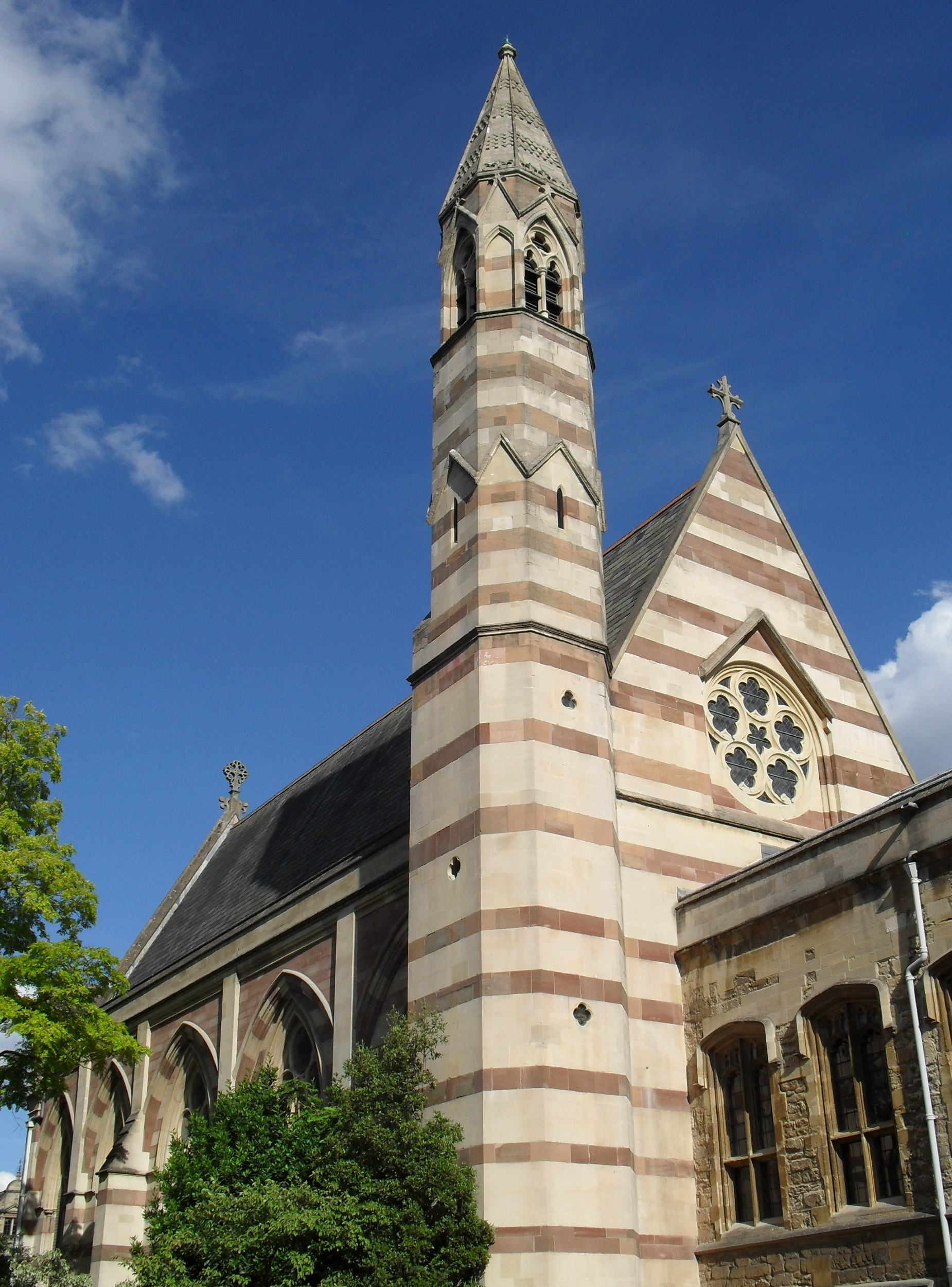 Balliol College Chapel, Oxford, seen from the Fellows' Garden